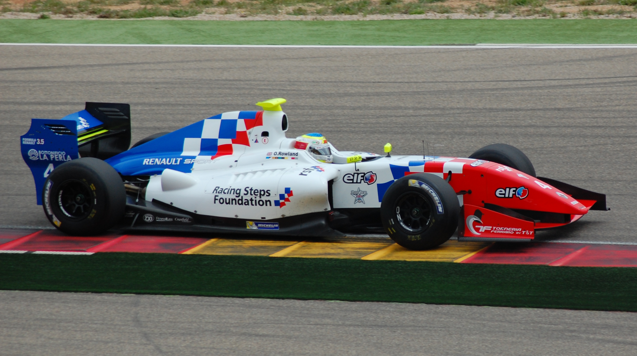 Aragonés: Olivier Rowland Motorland 2014